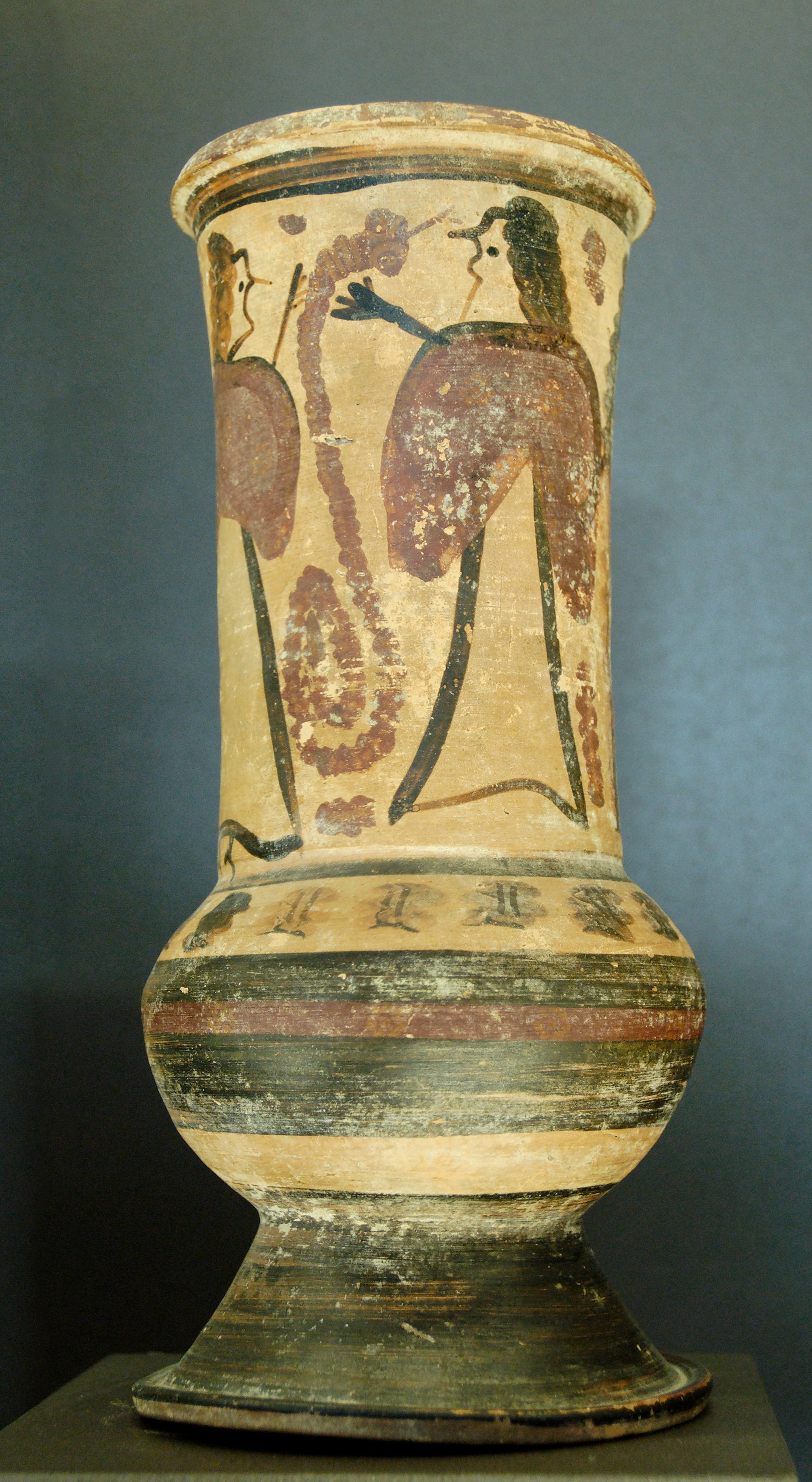 Two women. Euboen orientalizing jug. From Greece.